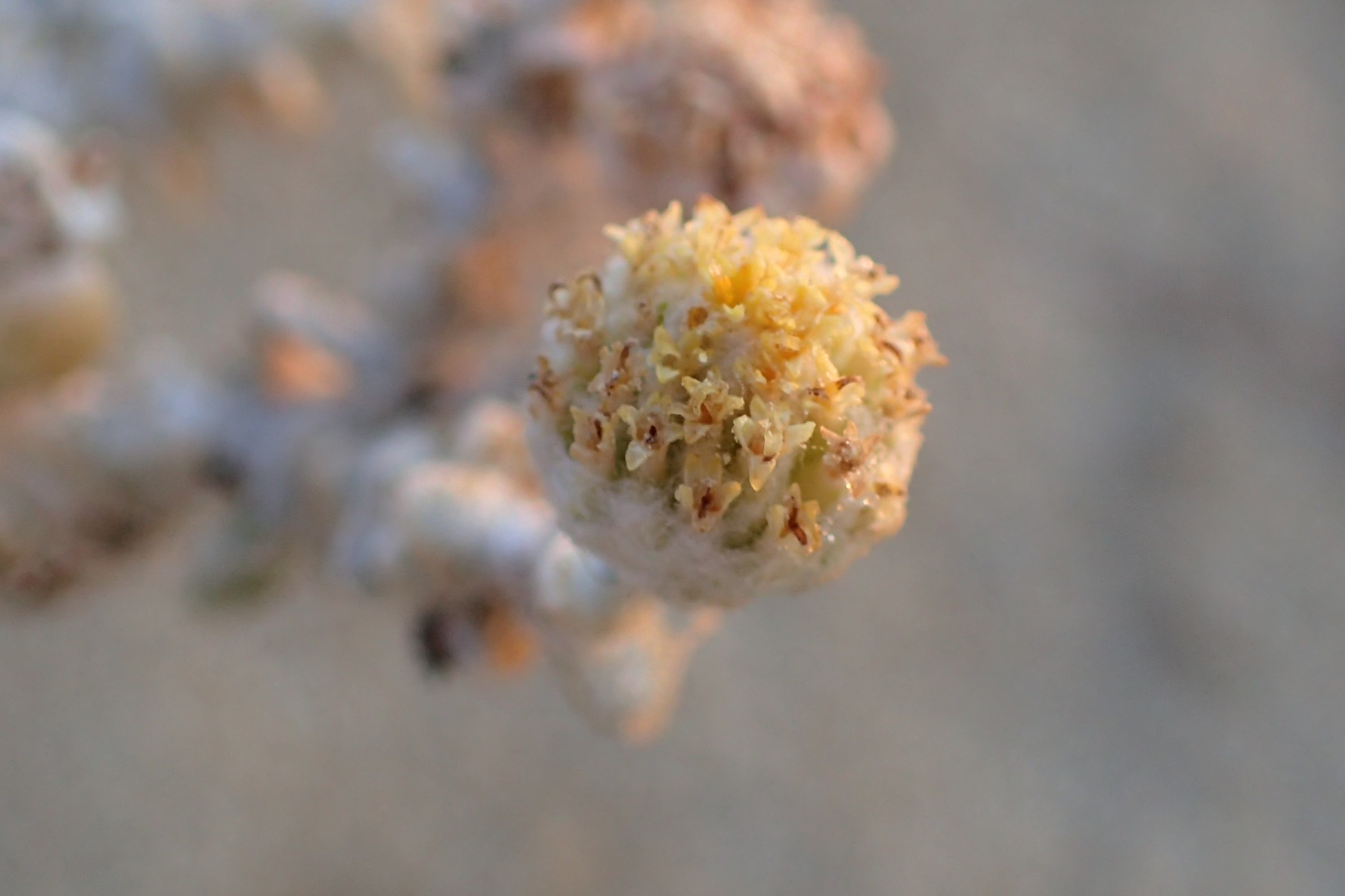 Achillea maritima in Paralia Kourna (Crete, Greece)